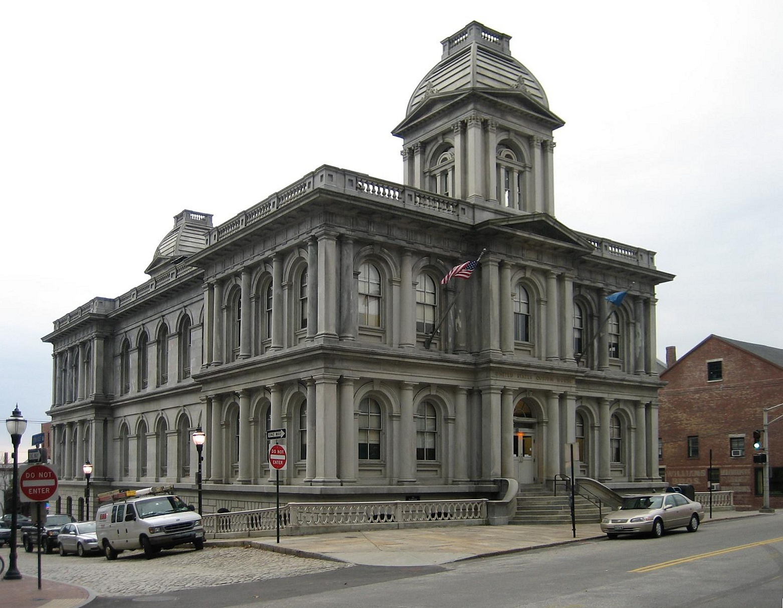 A picture of the custom house in Portland, Maine. Picture was taken with a Canon Power Shot SD450 Digital Elph camera and modified using a Paint Shop program on a laptop computer.